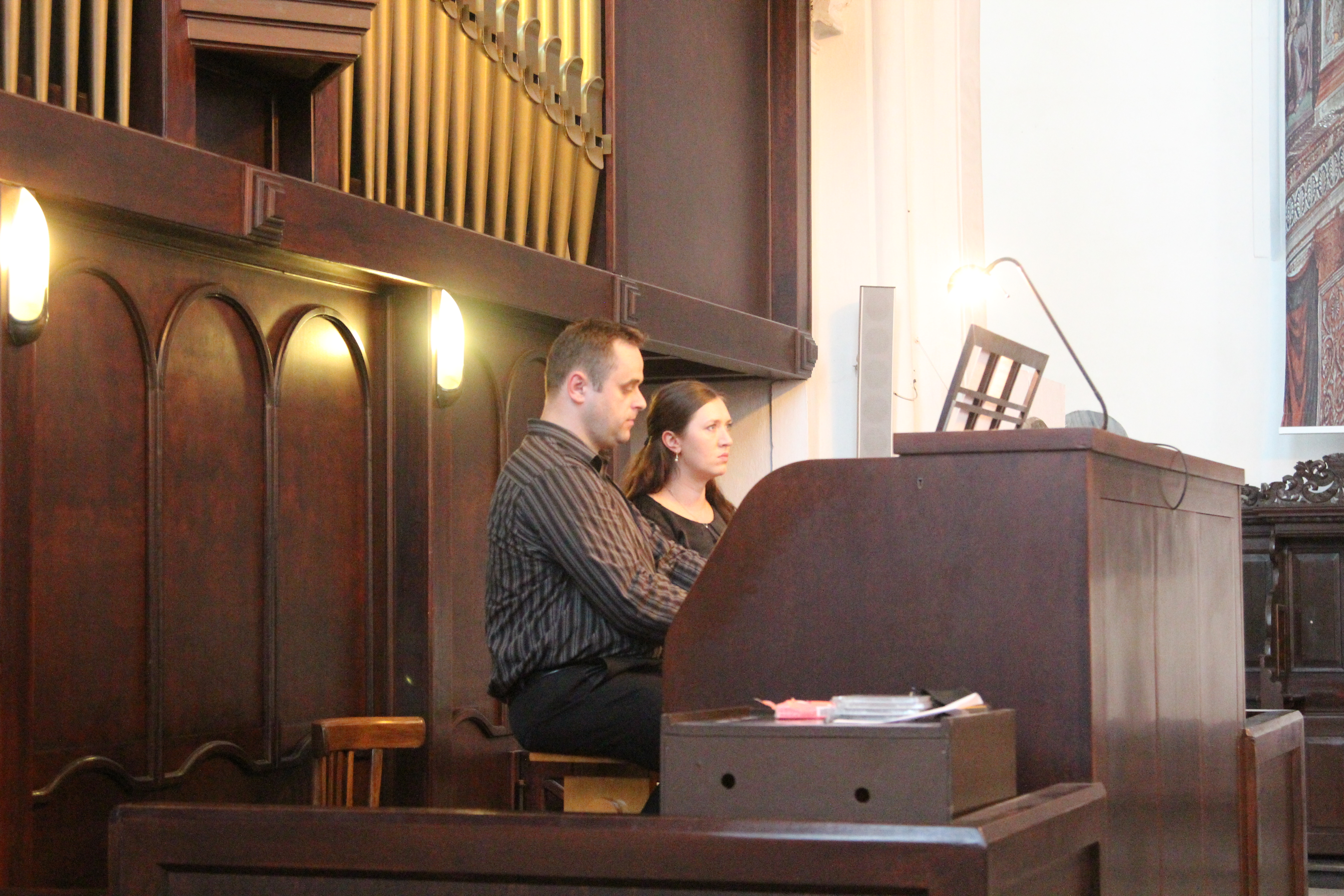 Concert of Anna Romanek and Lukasz Romanek (pipe organ) during 26th Johannes Brahms Organ and Chambermusic Festival